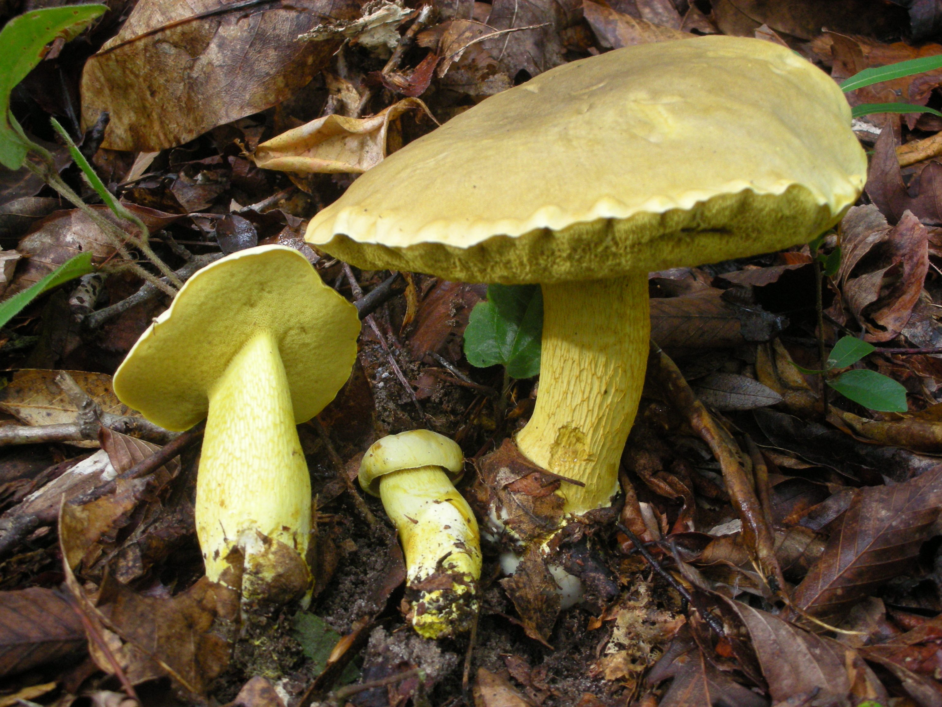 Retiboletus ornatipes (Peck) Binder & Bresinsky Location: Big Thicket, Polk Co., Texas, USA For more information about this, see the observation page at Mushroom Observer.